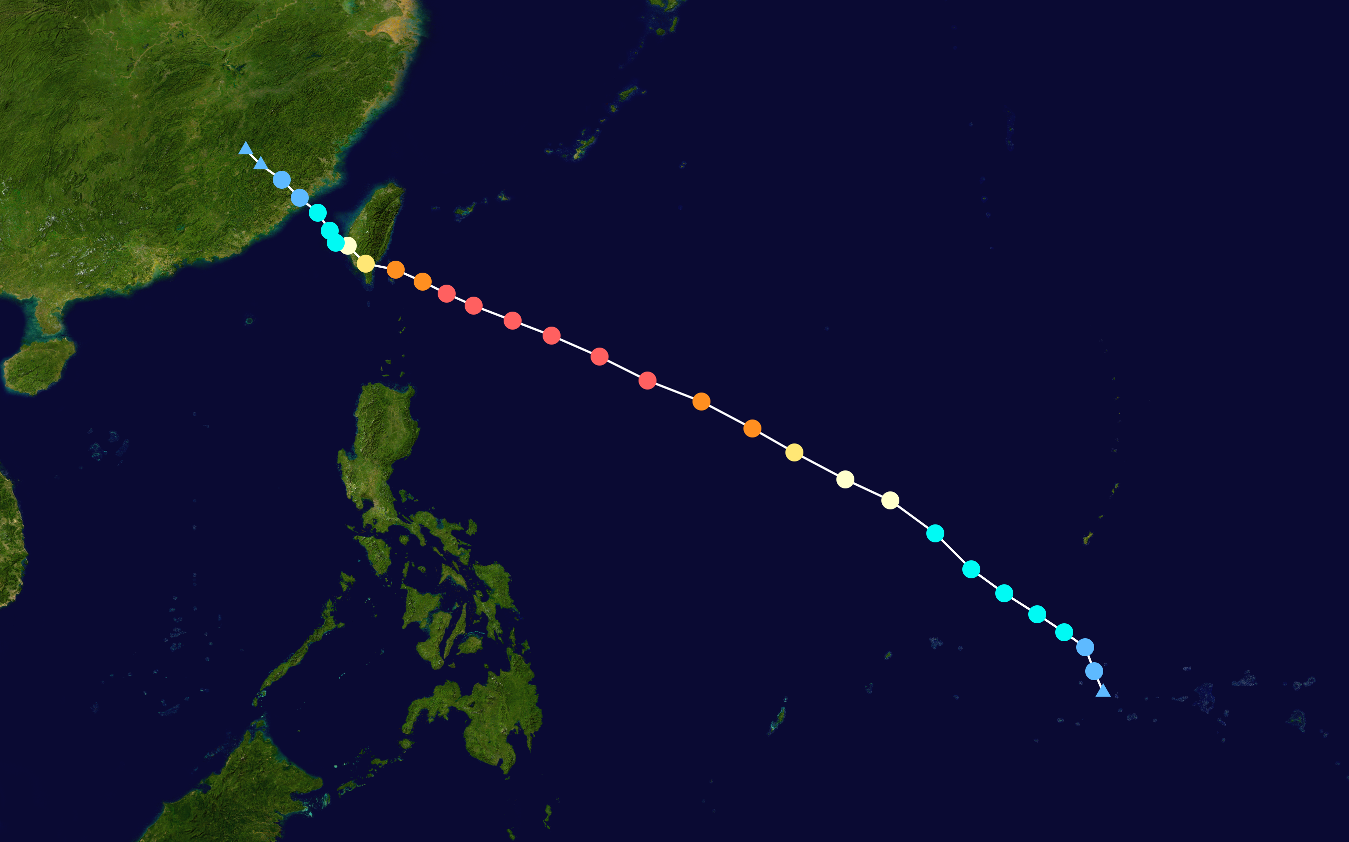 Track map of Typhoon Nepartak of the 2016 Pacific typhoon season. The points show the location of the storm at 6-hour intervals. The colour represents the storm's maximum sustained wind speeds as classified in the Saffir–Simpson scale (see below), and the shape of the data points represent the nature of the storm, according to the legend below. Saffir–Simpson scale Tropical depression≤38 mph≤62 km/h Category 3111–129 mph178–208 km/h Tropical storm39–73 mph63–118 km/h Category 4130–156 mph209–251 km/h Category 174–95 mph119–153 km/h Category 5≥157 mph≥252 km/h Category 296–110 mph154–177 km/h Unknown Storm type Tropical cyclone Subtropical cyclone Extratropical cyclone / Remnant low / Tropical disturbance / Monsoon depression